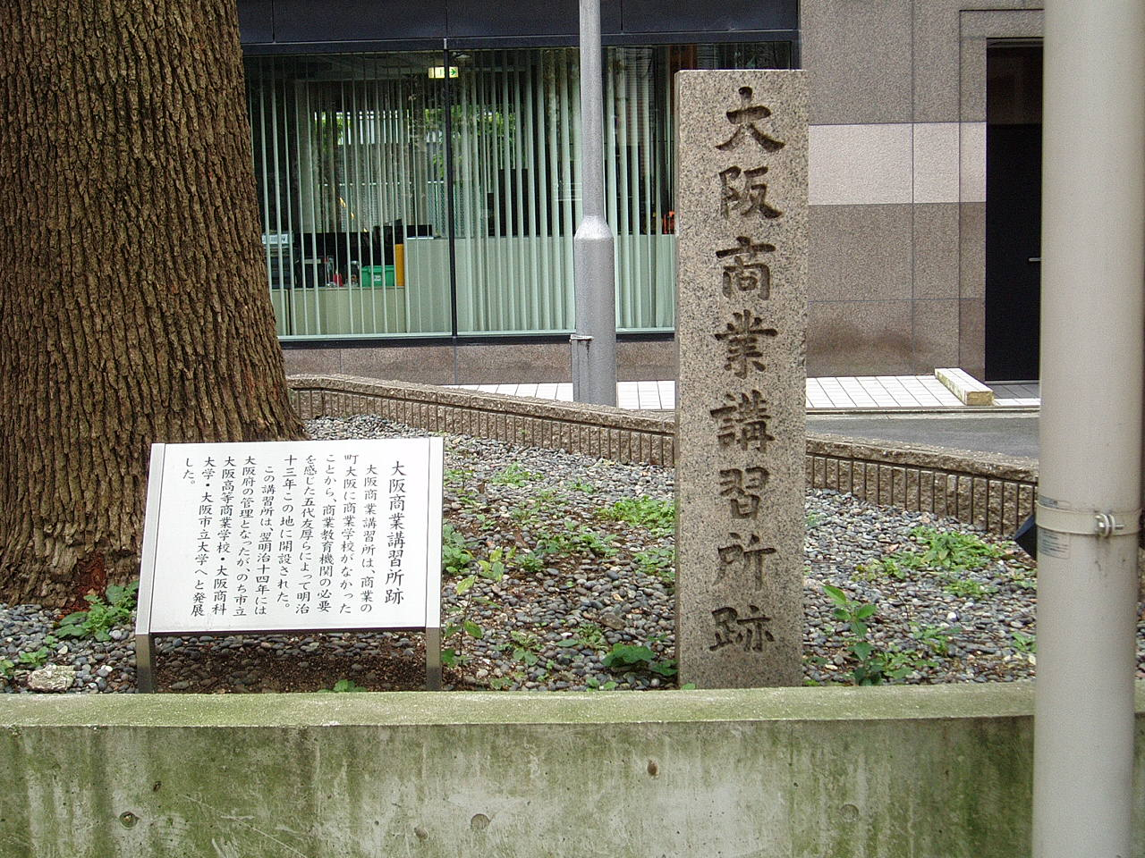 A monument of the birthplace of Osaka Commercial Training Institute (a predecessor of Osaka City University). Located in Nishi-ku, Osaka, Japan.